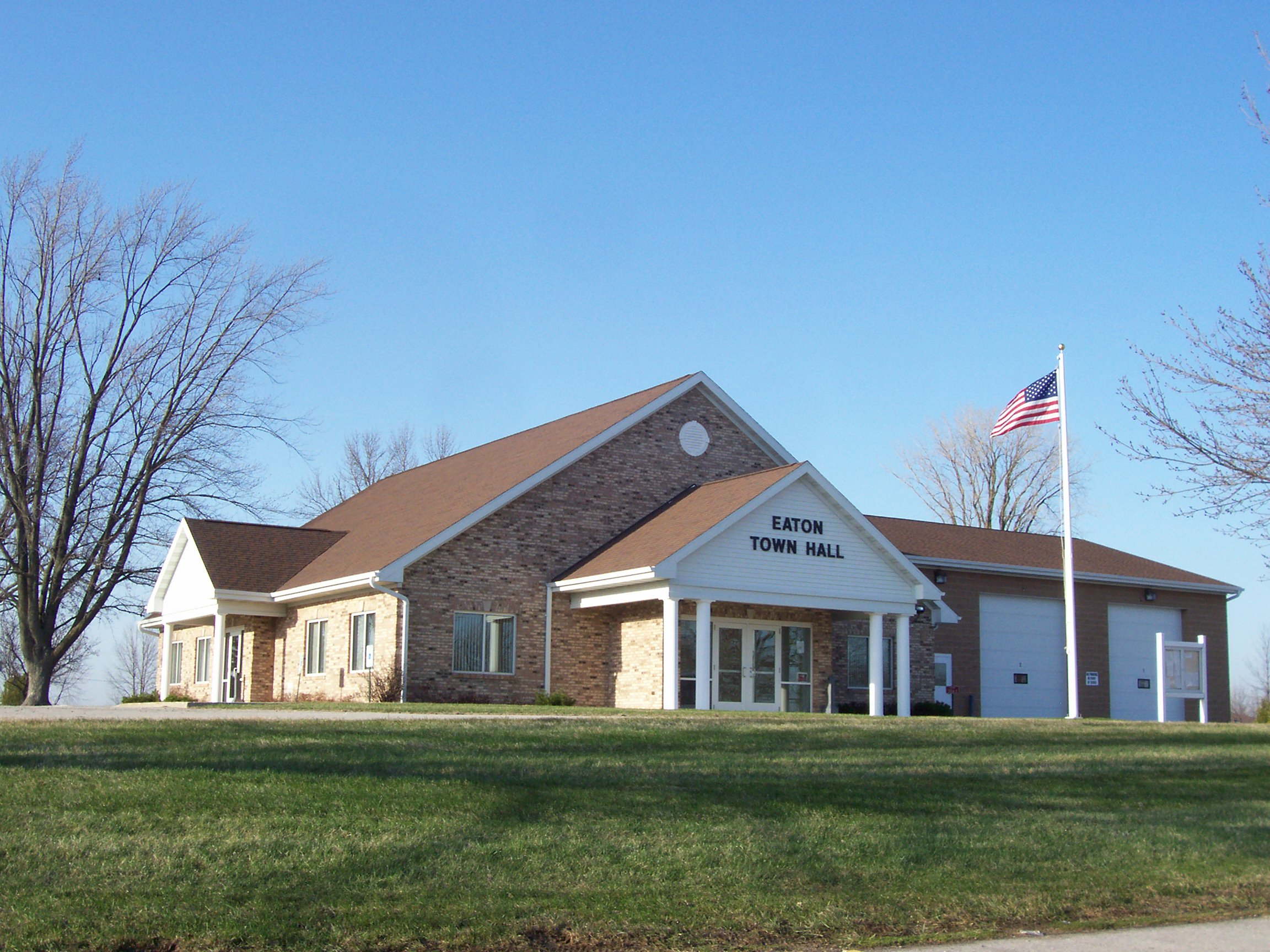 Looking east at the town hall for the township of Eaton, Brown County, Wisconsin, US.